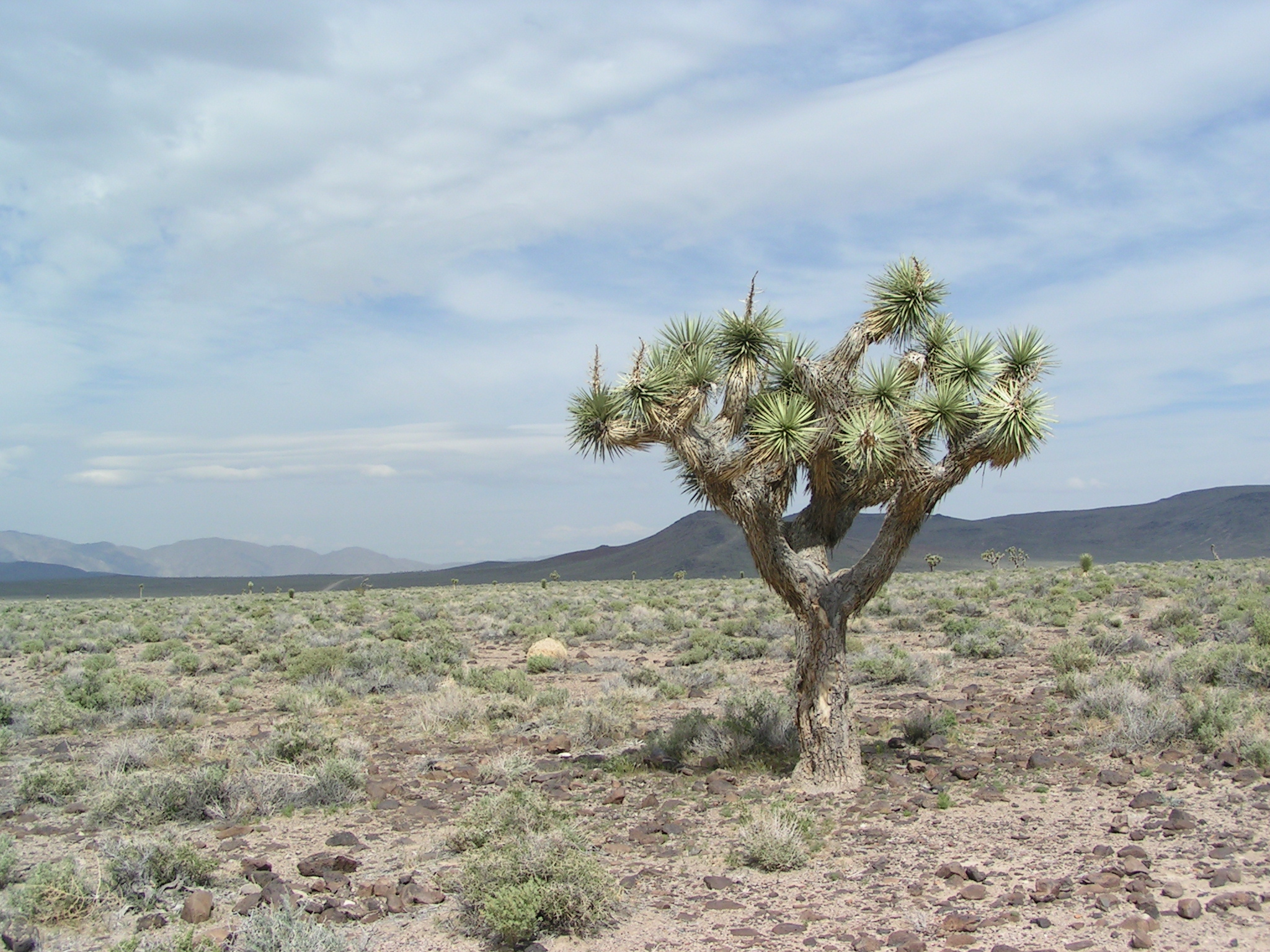 Joshua Tree in Joshua Tree National Park, California (USA), 2004, photo taken with Minolta Dimage Z1